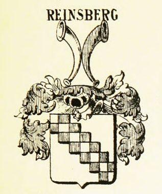 Coat of arms, Reinsberg family, Saxony